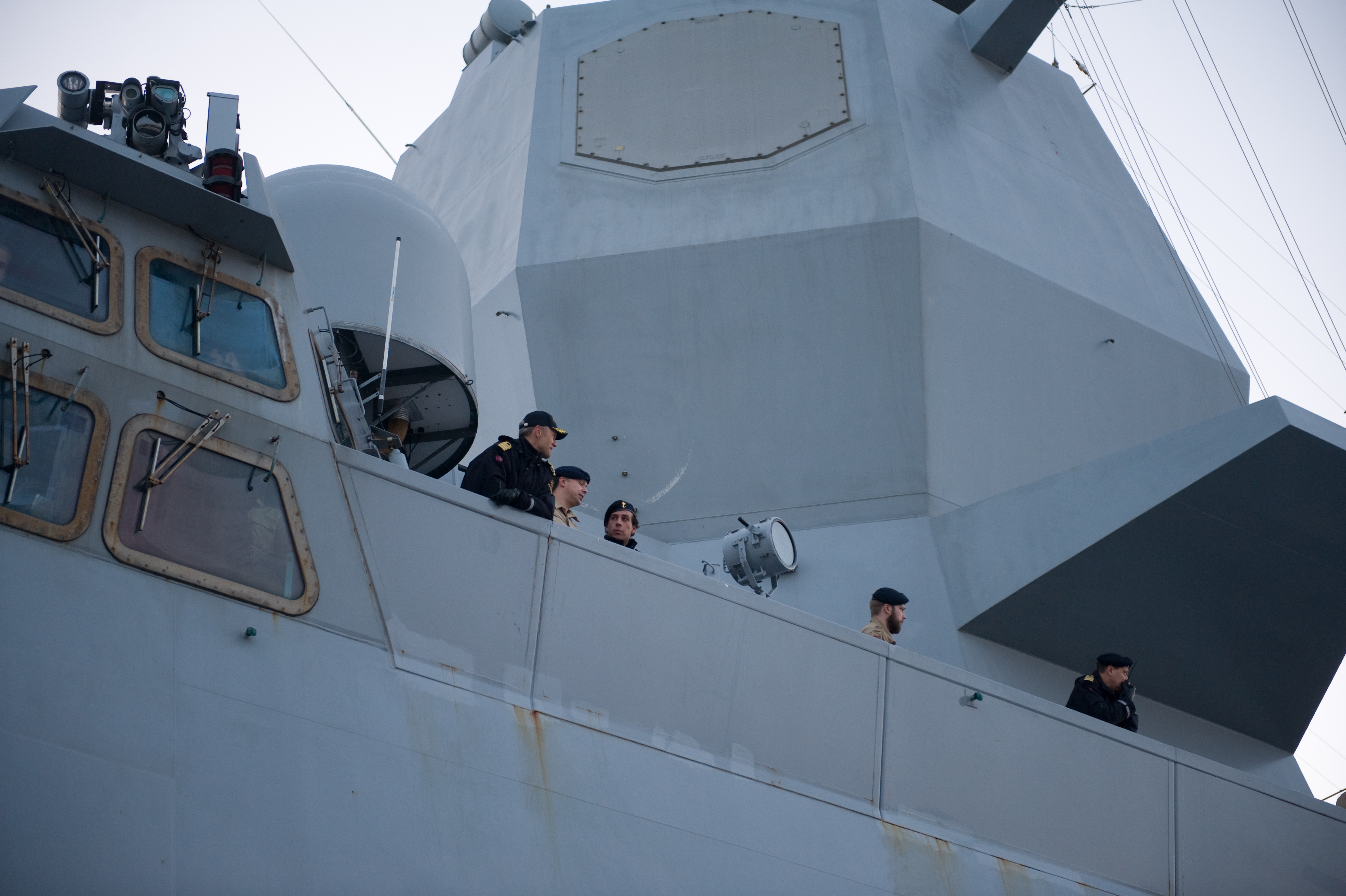 Fridtjof Nansen class frigate - detail view.